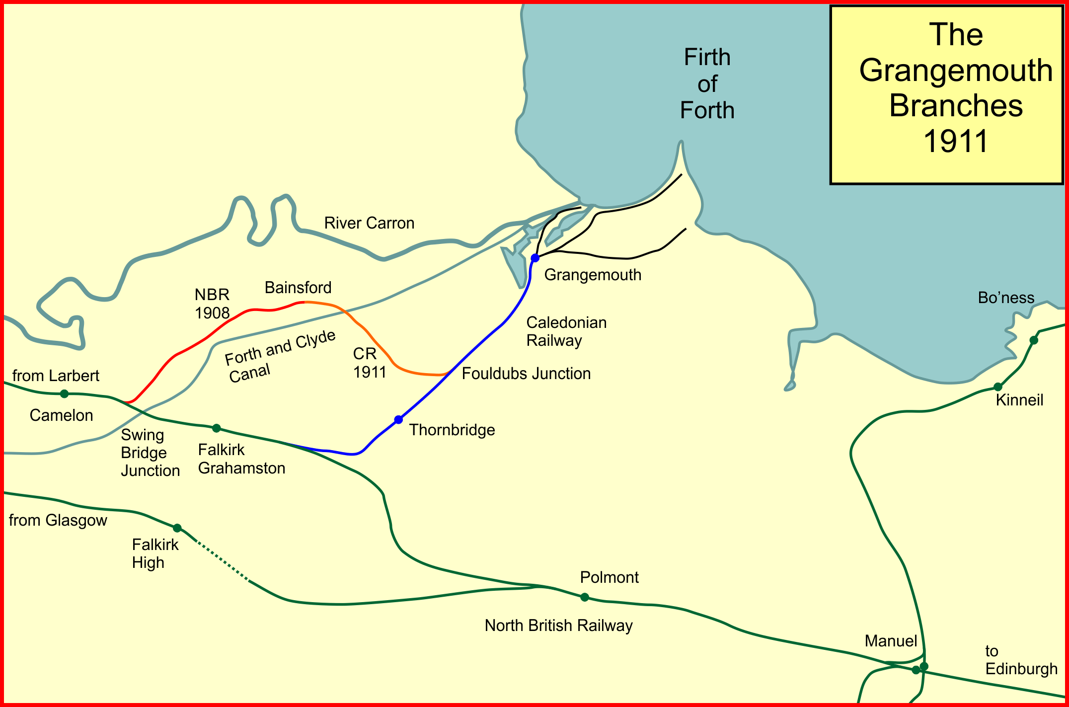 System map of the Grangemouth Railway Branch, Scotland, in 1911